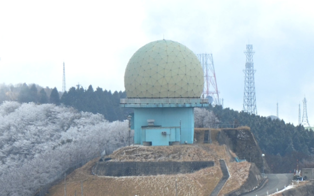 JFPS-3 kai Japan ASDF Seburiyama SUB BASE, Saga